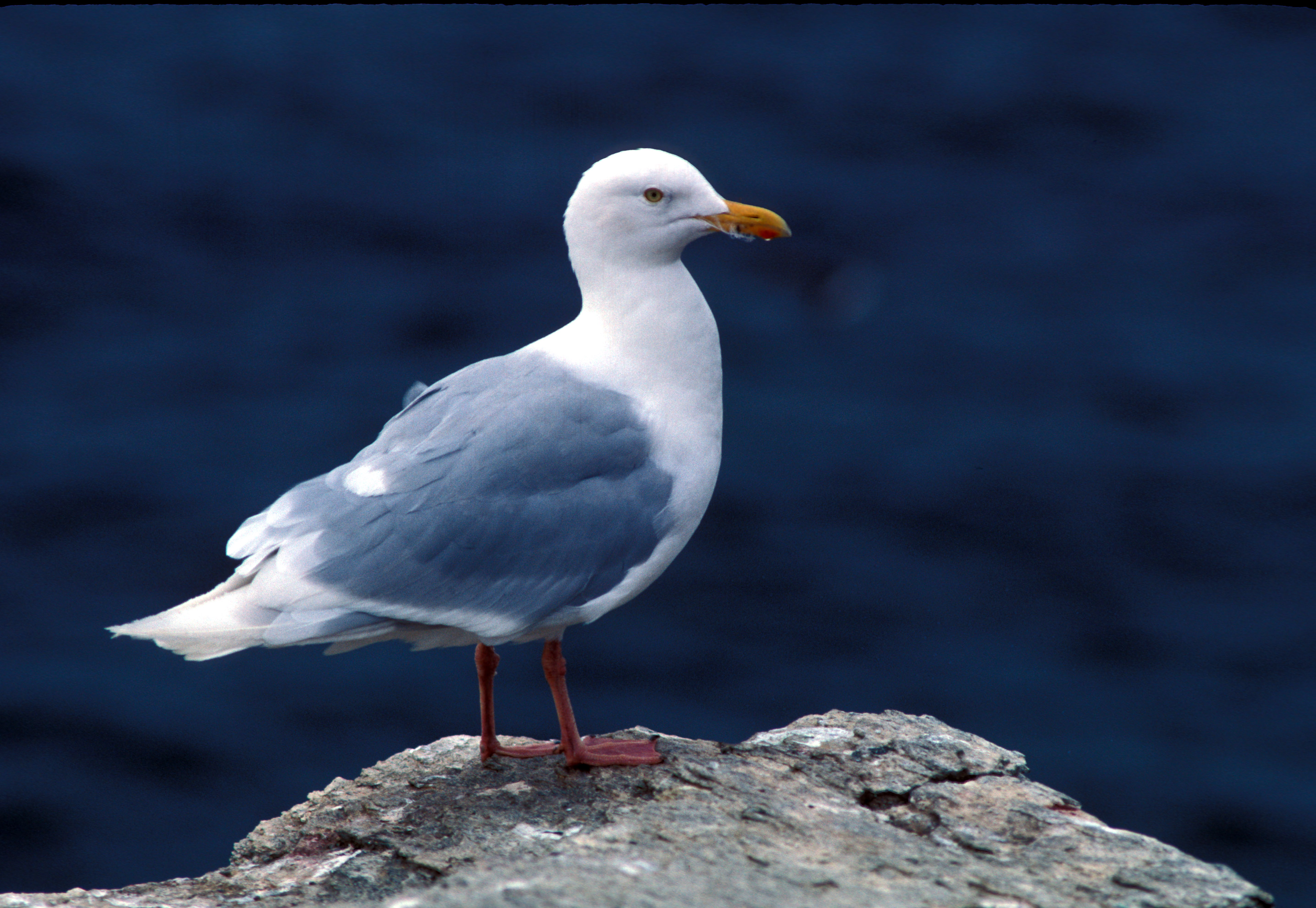 Glaucous Gull Larus hyperboreus, Alaska Maritime NWR.